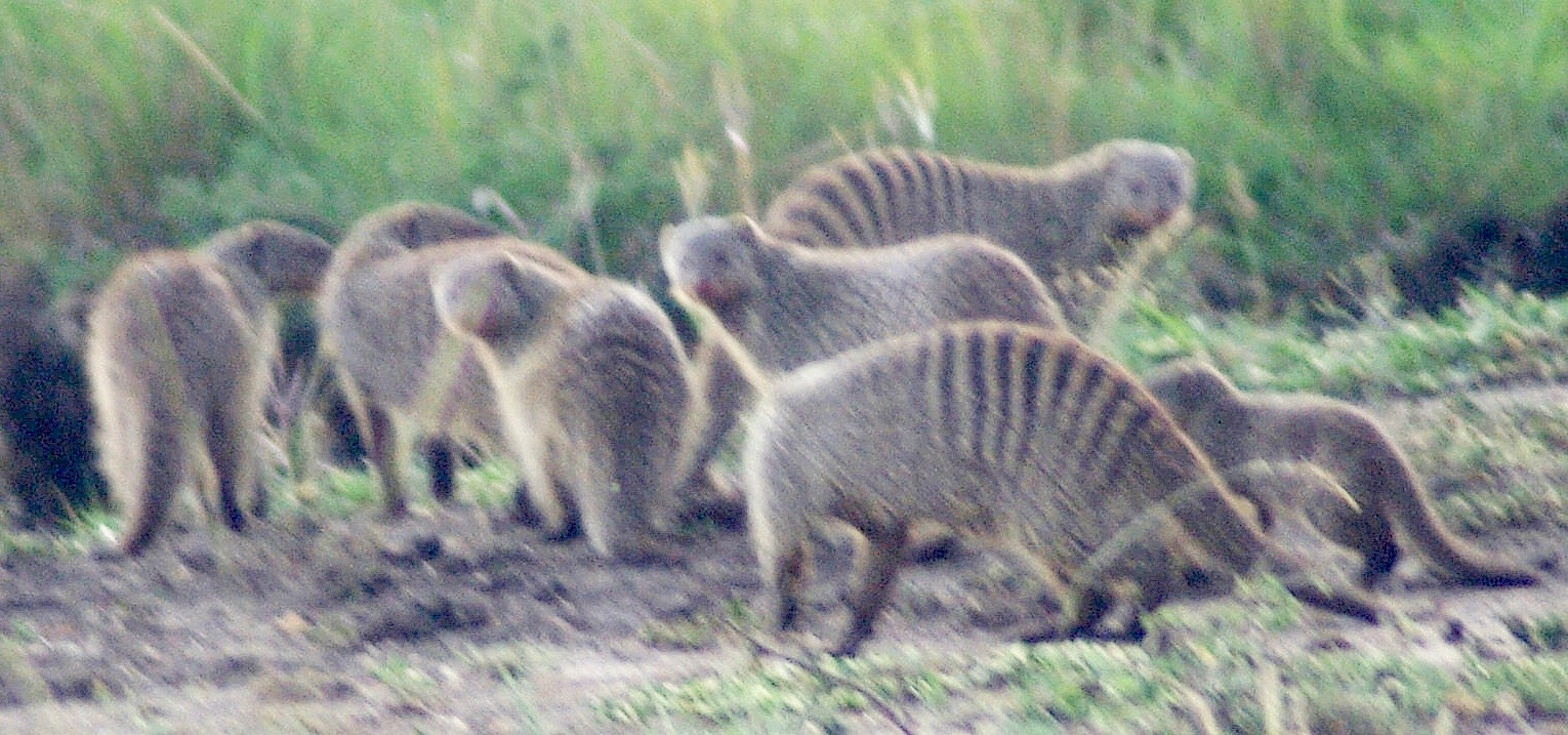 Pack of Banded Mongooses, Mungos mungo, near Masai Mara NP, Kenya. The time stamp is 10 hours too early.